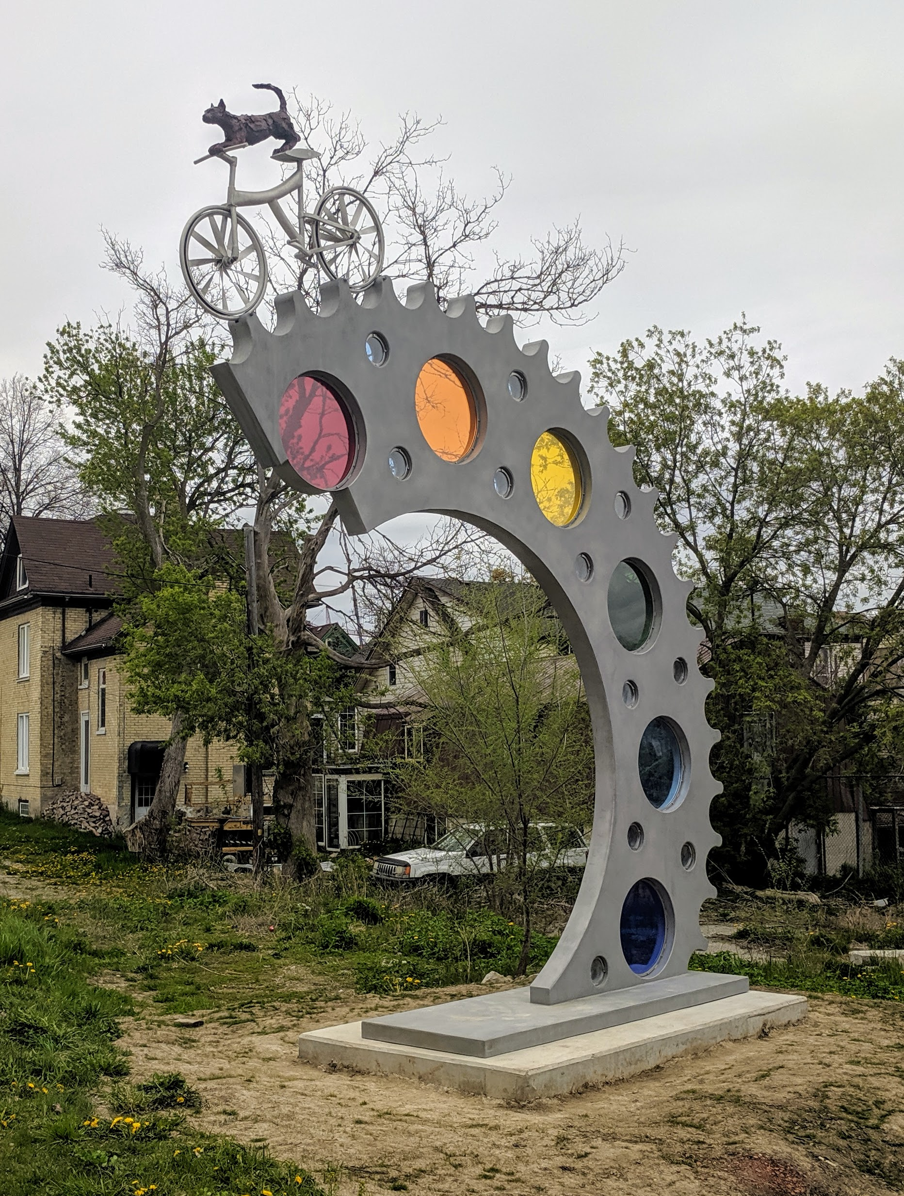 Because Cats Can't Fly, sculpture by Veronica and Edwin Dam de Nogales, completed 2019. Charles street between Madison and Cedar streets, Kitchener, Ontario.